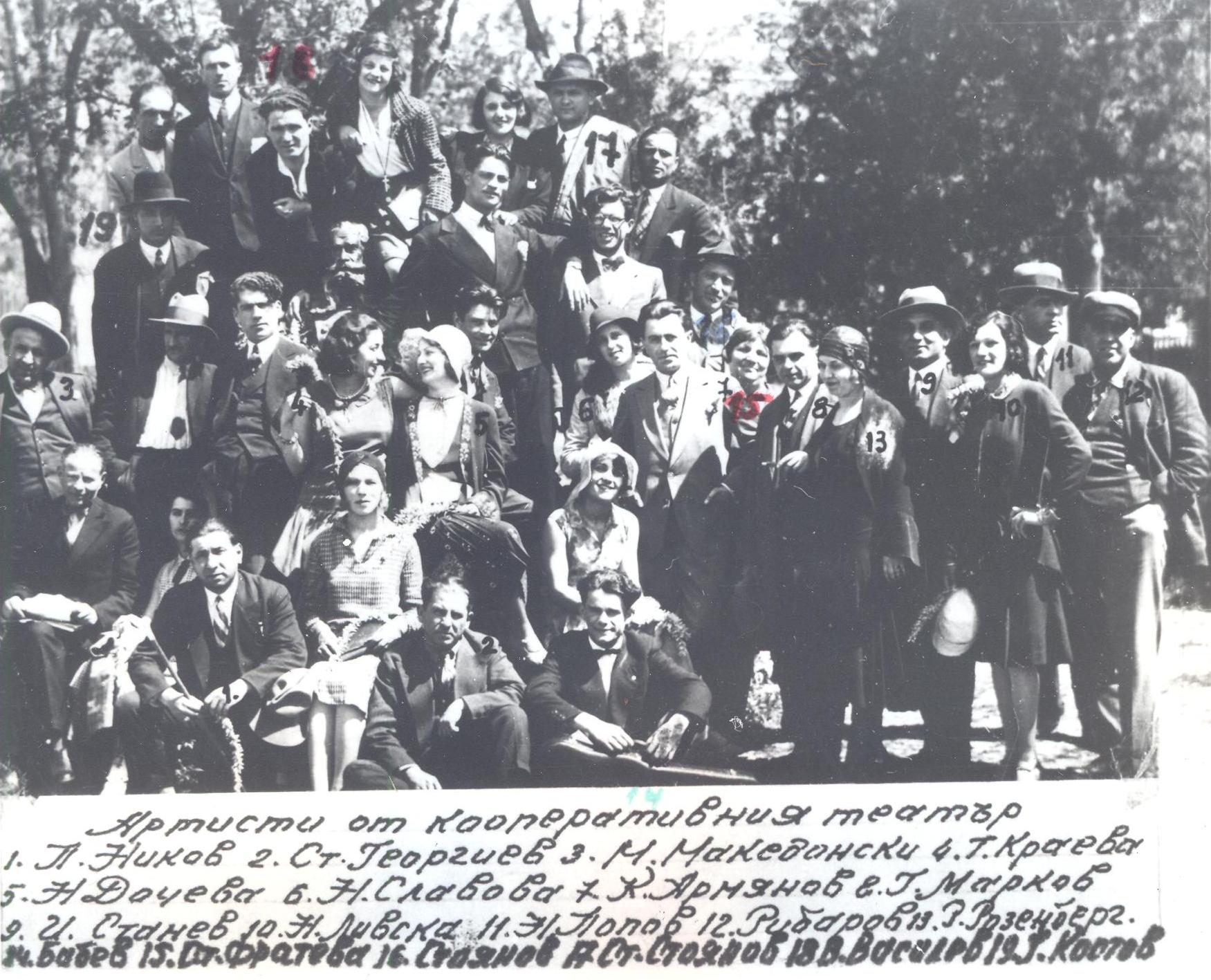 Petko Nikov, St. Georgiev, Matthew Makedonski, Tinka Kraeva, N. Dacheva, N. Slavova, Kosta Armyanov, Gencho Markov, Ivan Stanev, N. Livska, Nikola Popov, Ribarov, Roza Rozenberg, Babev, St. Frateva, Ilia Stoyanov, St. Stoyanov, V. Vasilev and G. Kostov, 1938.